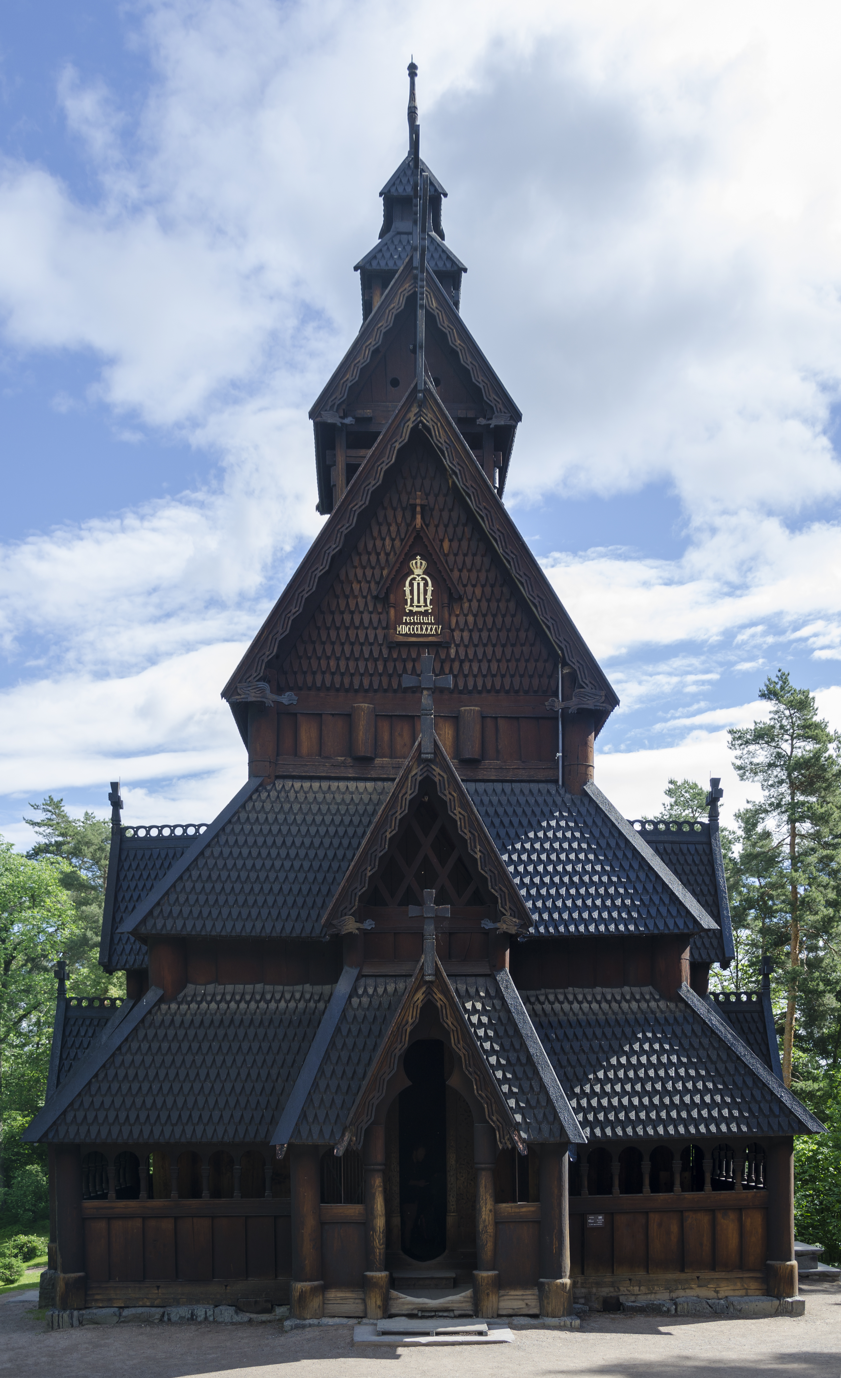 Stave church from Gol in Halling valley, ca. 1200. Moved to the Norwegian Museum of Cultural History 1884. Around 1/3 of the materials were thought to be mediaeval - the rest of the church was reconstructed, modelled after Borgund stave church in Sogn.